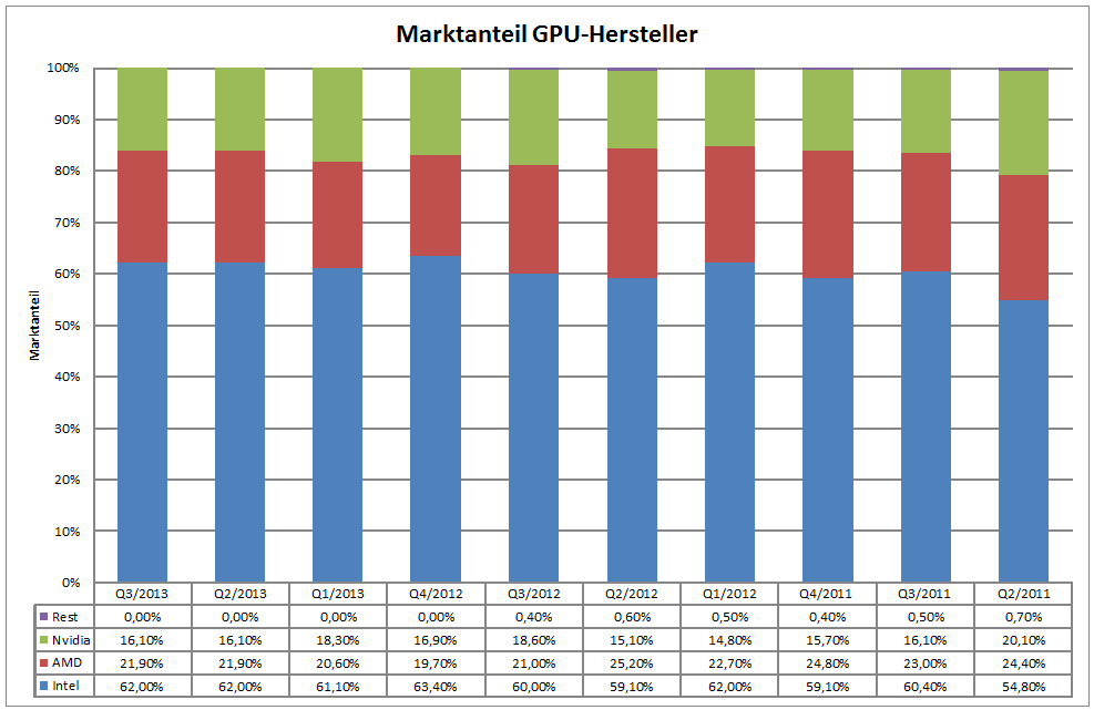 Market shares of the GPU manufacturer in the respective years